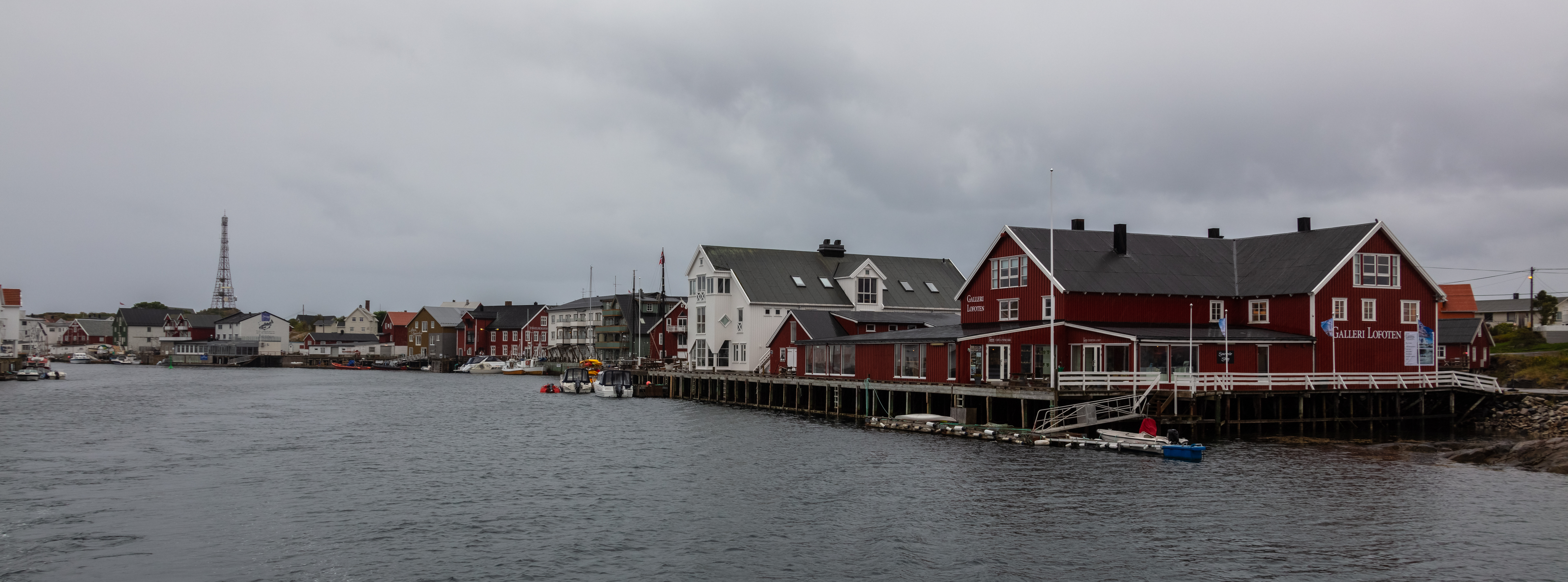 Svolvær, Lofoten, Norway